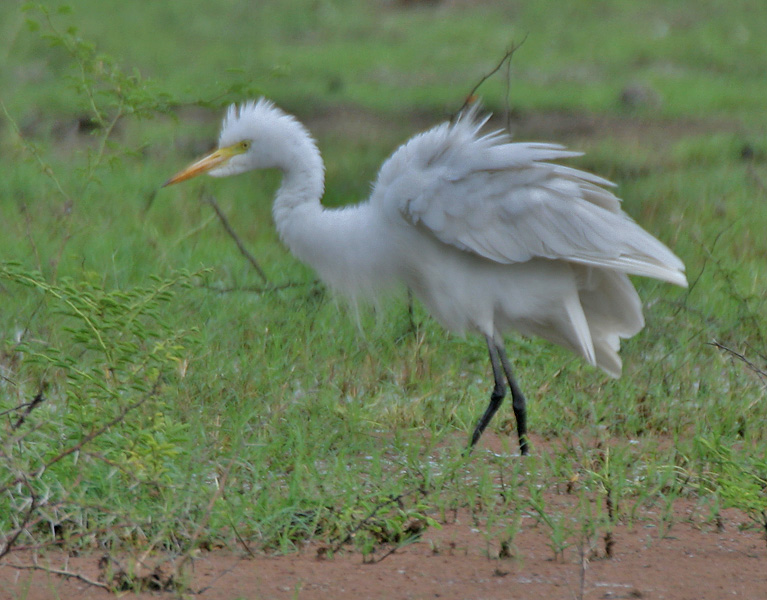 Intermediate Egret ((Mesophoyx intermedia)) at Keoladeo National Park, Bharatpur, Rajasthan, India.